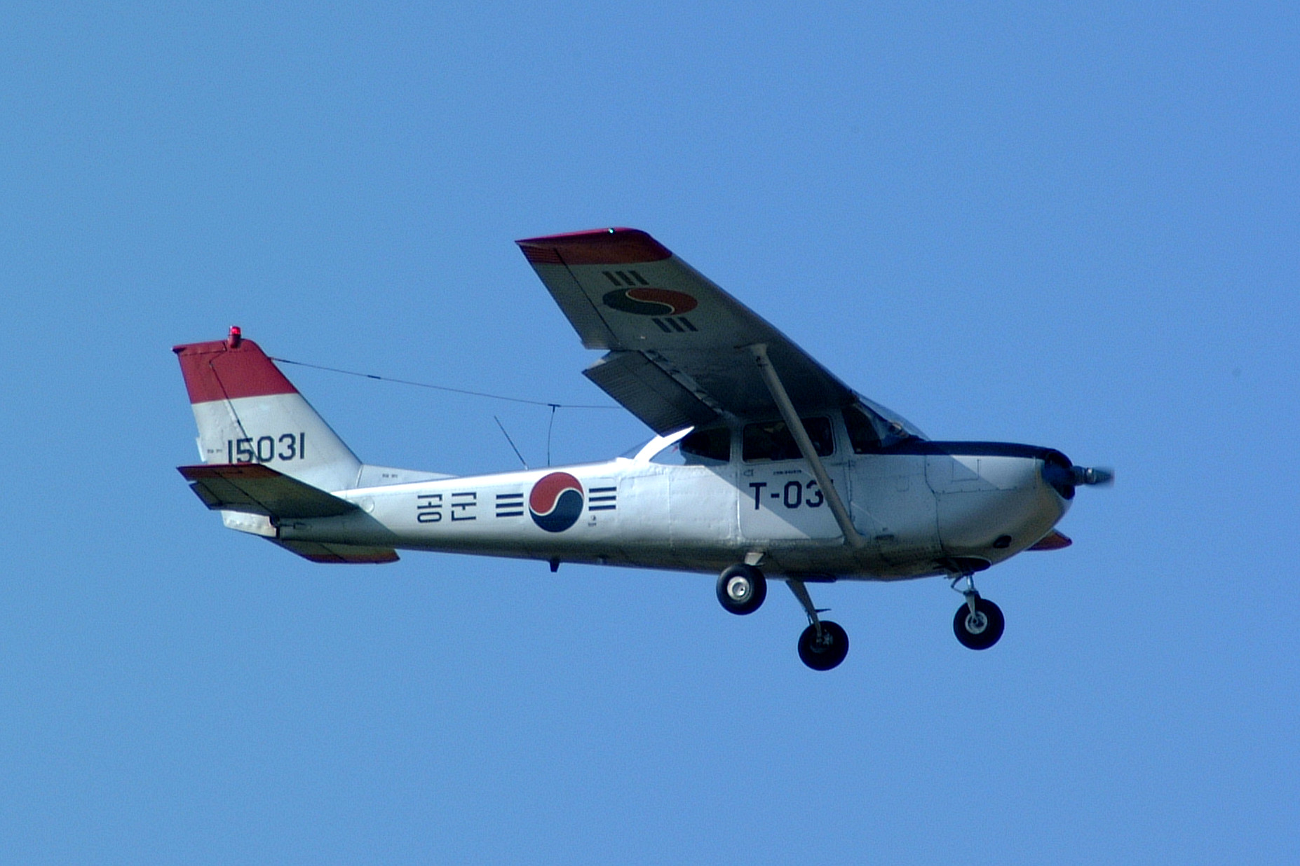 The Cessna T-41B (Skyhawk) was still in use in 2005 by the Korean Air Force but was scheduled to be withdrawn.